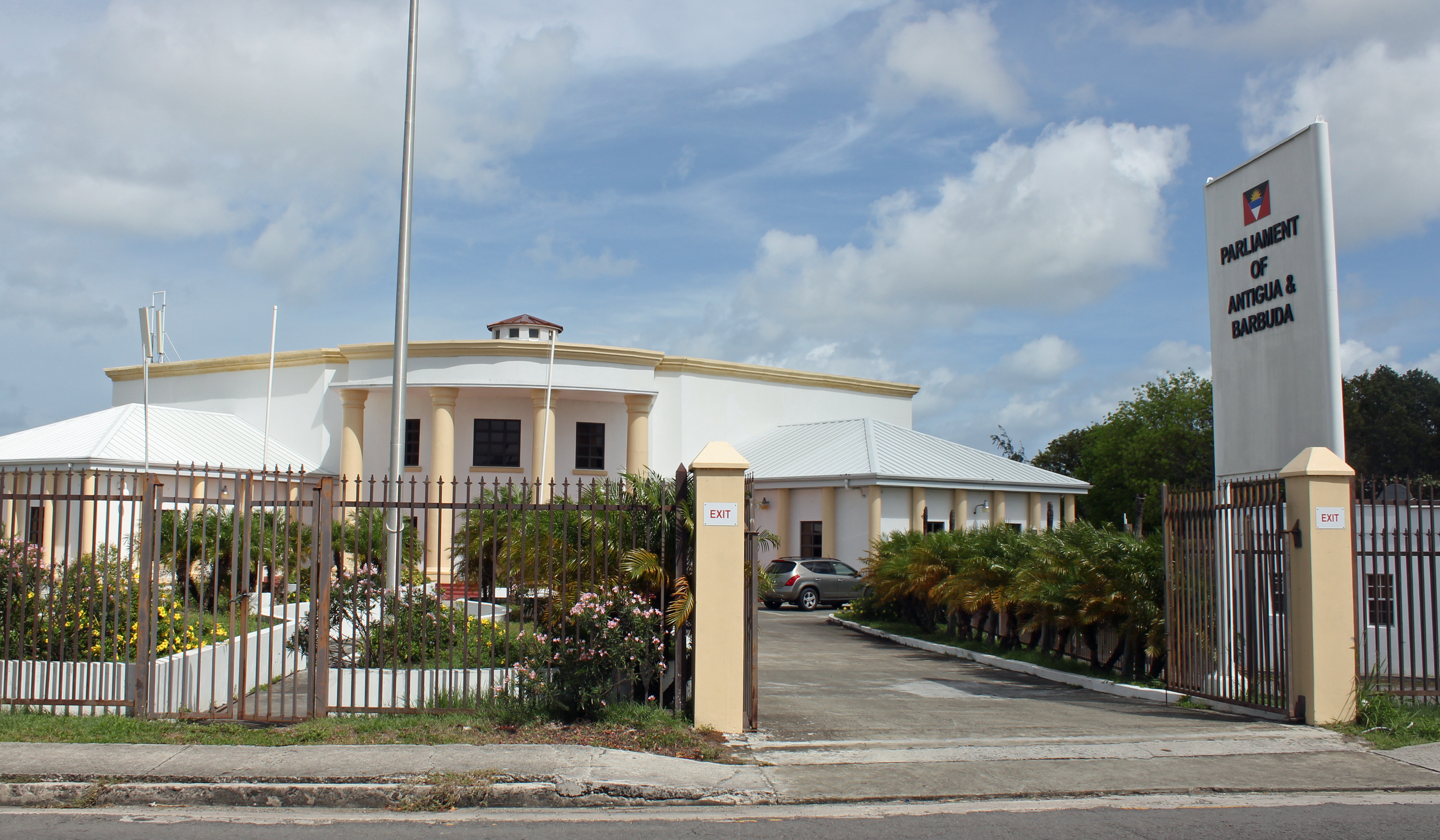 The Parliament Building of Antigua and Barbuda, located on Queen Elizabeth Highway in St. John's, Antigua and Barbuda.